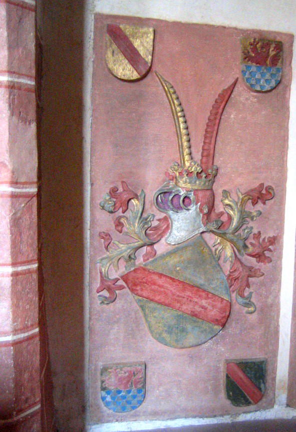 Tombstone slab with the coat of arms of margrave Otto I. of Hachberg-Sausenberg in the church of Sitzenkirch